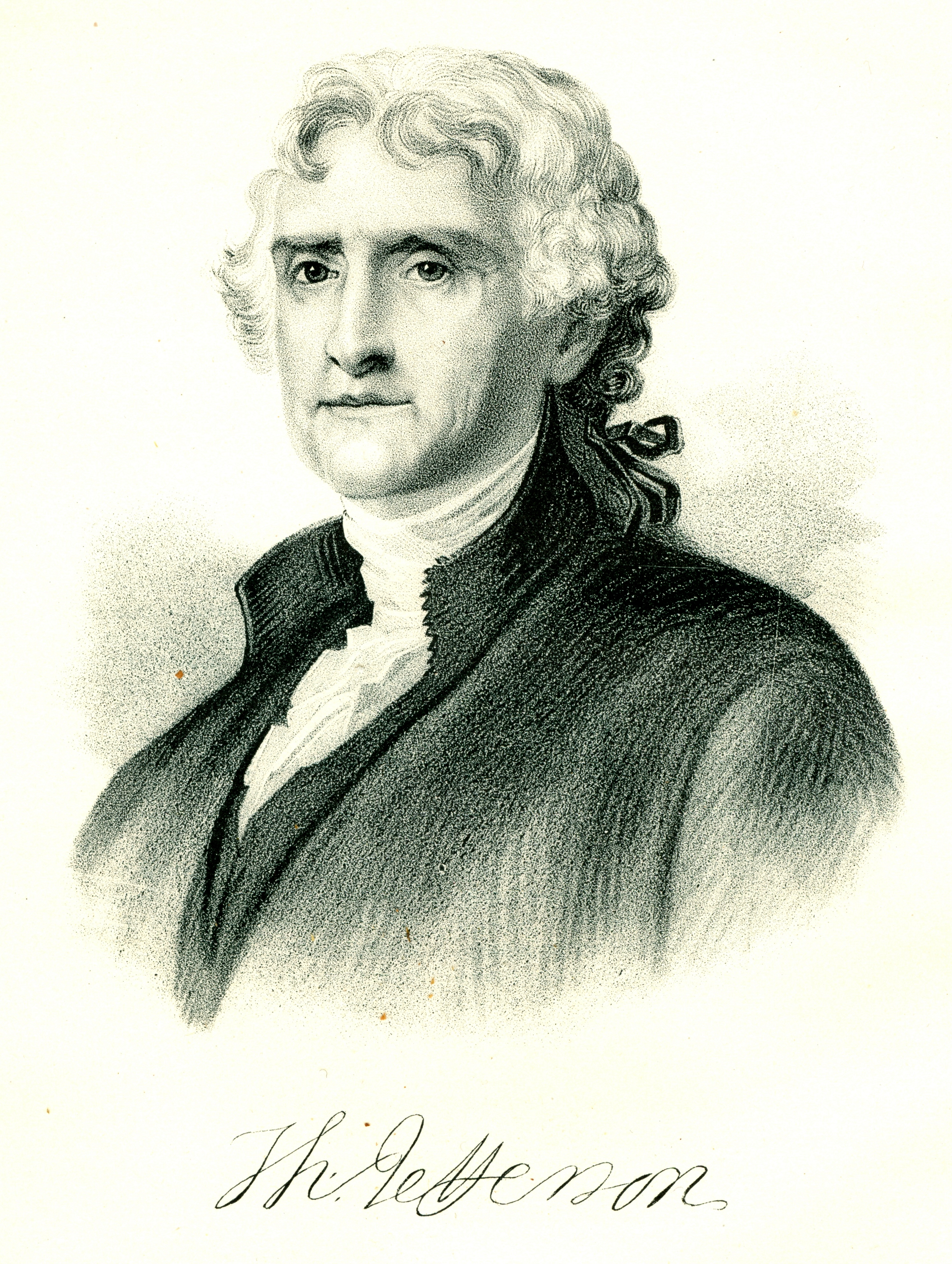 Thomas Jefferson